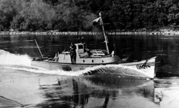 Black and white photo of a small military patrol boat operating at speed